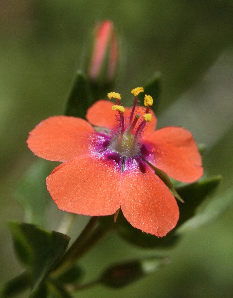 Scarlet pimpernel, Red pimpernel, Red chickweed, Poor man's barometer, Shepherd's weather glass, or Shepherd's clock (Anagallis arvensis)